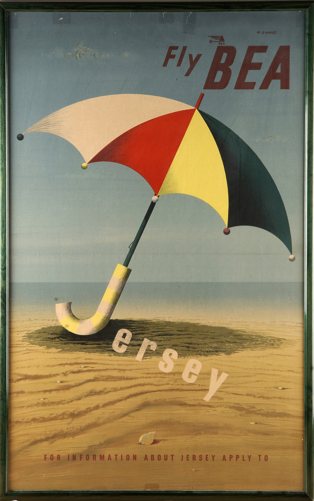 Fly BEA Jersey tourism advertising poster with beach umbrella, designed by Abram Games. Jersey Tourism, the tourism agency of the States of Jersey, has placed a selection from its advertising archive online at Flickr under CC licences : It further states there: "Jersey Tourism is part of the States of Jersey. These images are provided freely, without copyright restrictions and no royalties are payable."